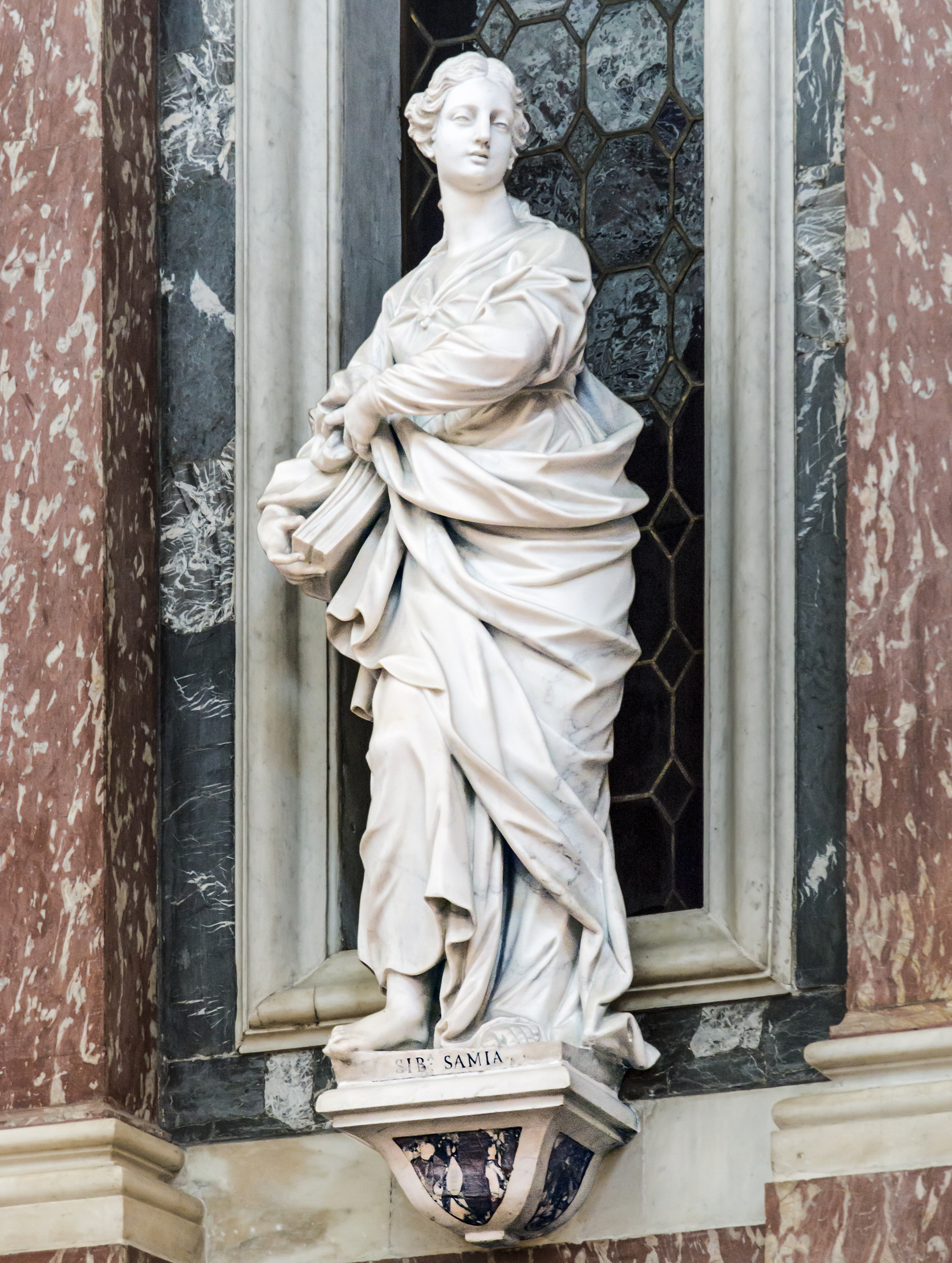 Church Santa Maria degli Scalzi Venice. Sibyl of Samos, by Giovanni Marchiori.